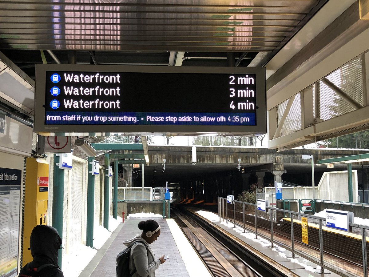 This image demonstrates an example LCD being used in english, matching the language of the article.